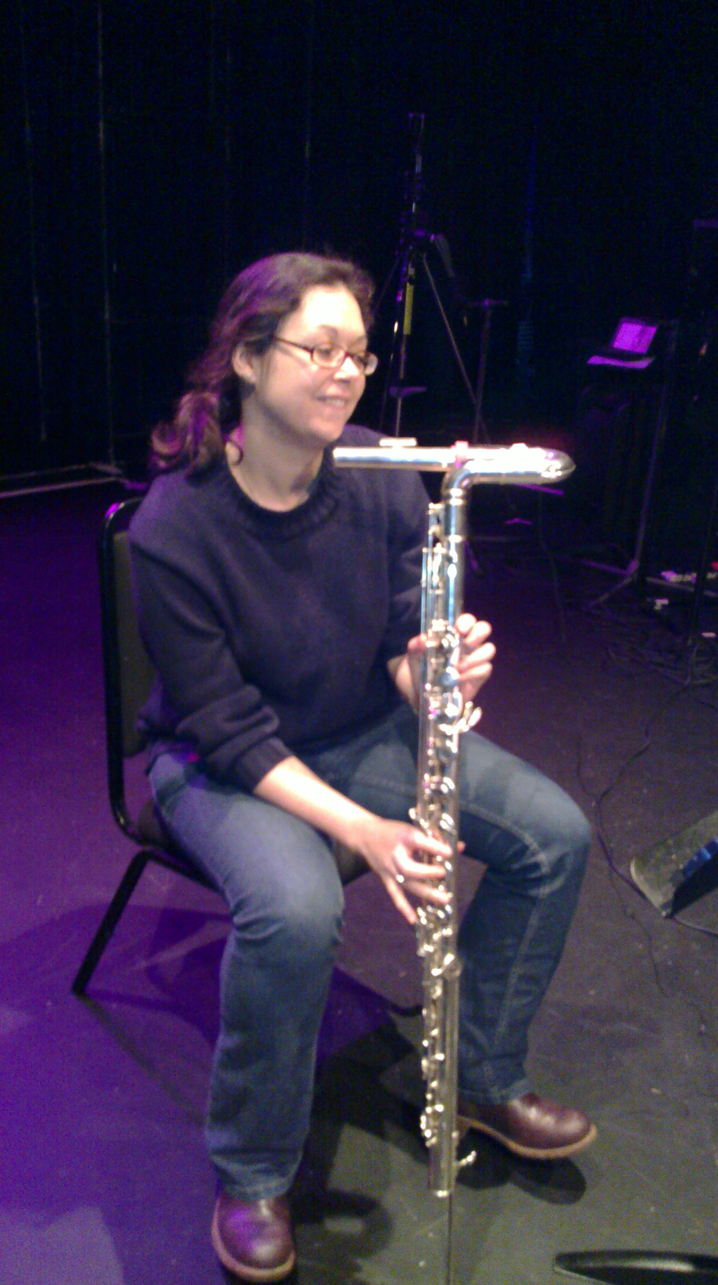 An octobass flute.